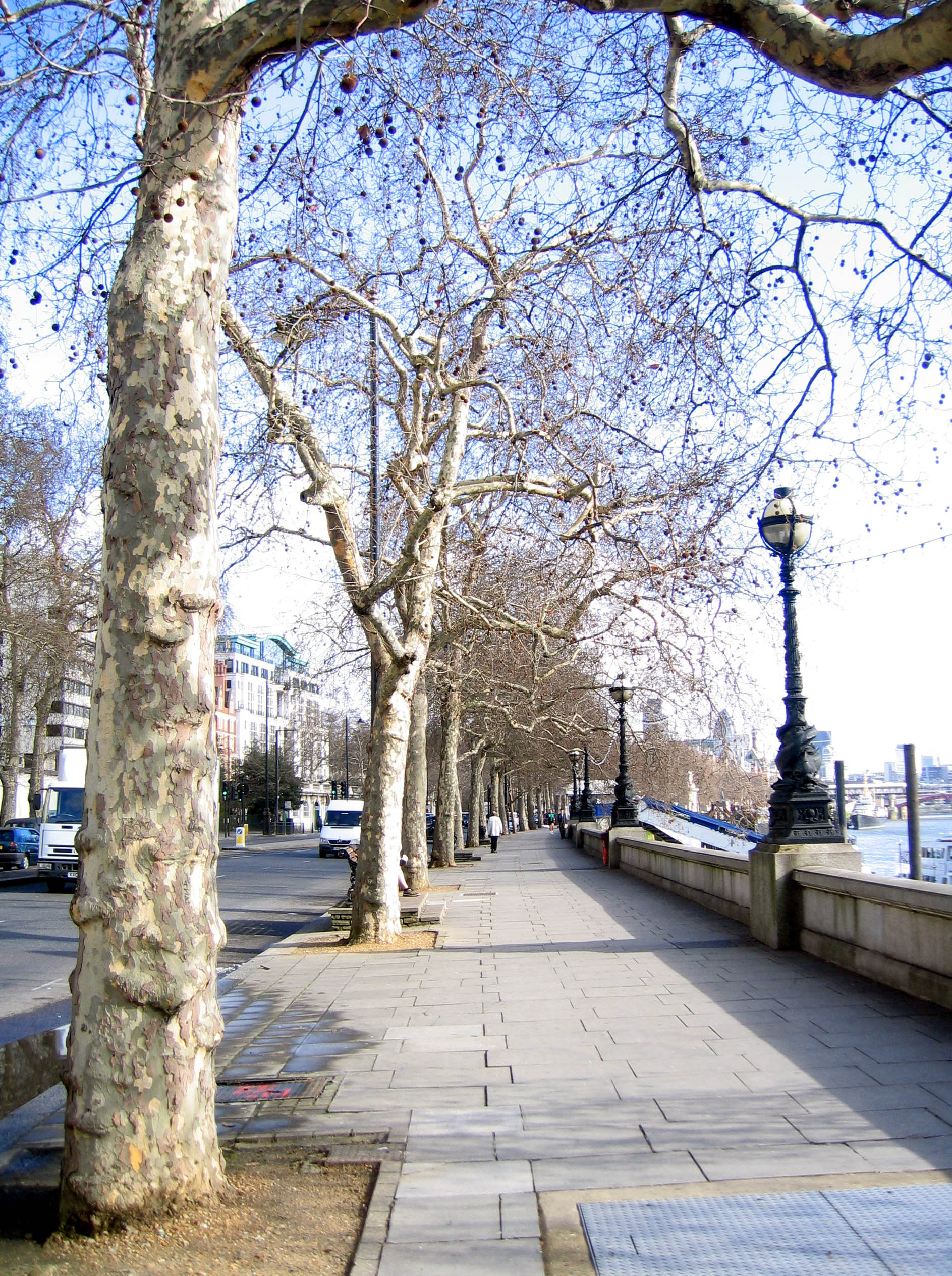 Photograph